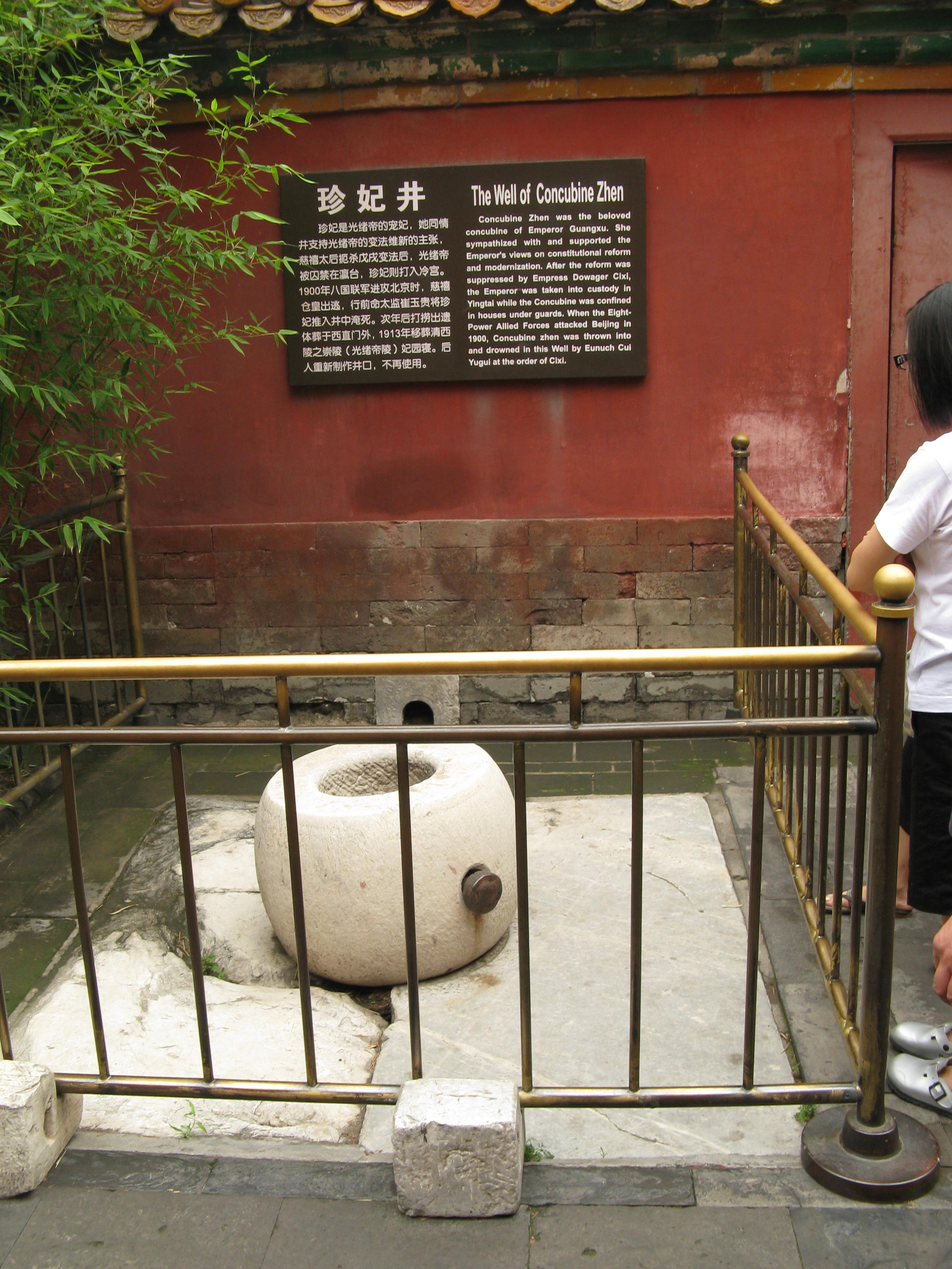 Well in the Forbidden City in which Imperial Consort Zhen was allegedly drowned in 1900.